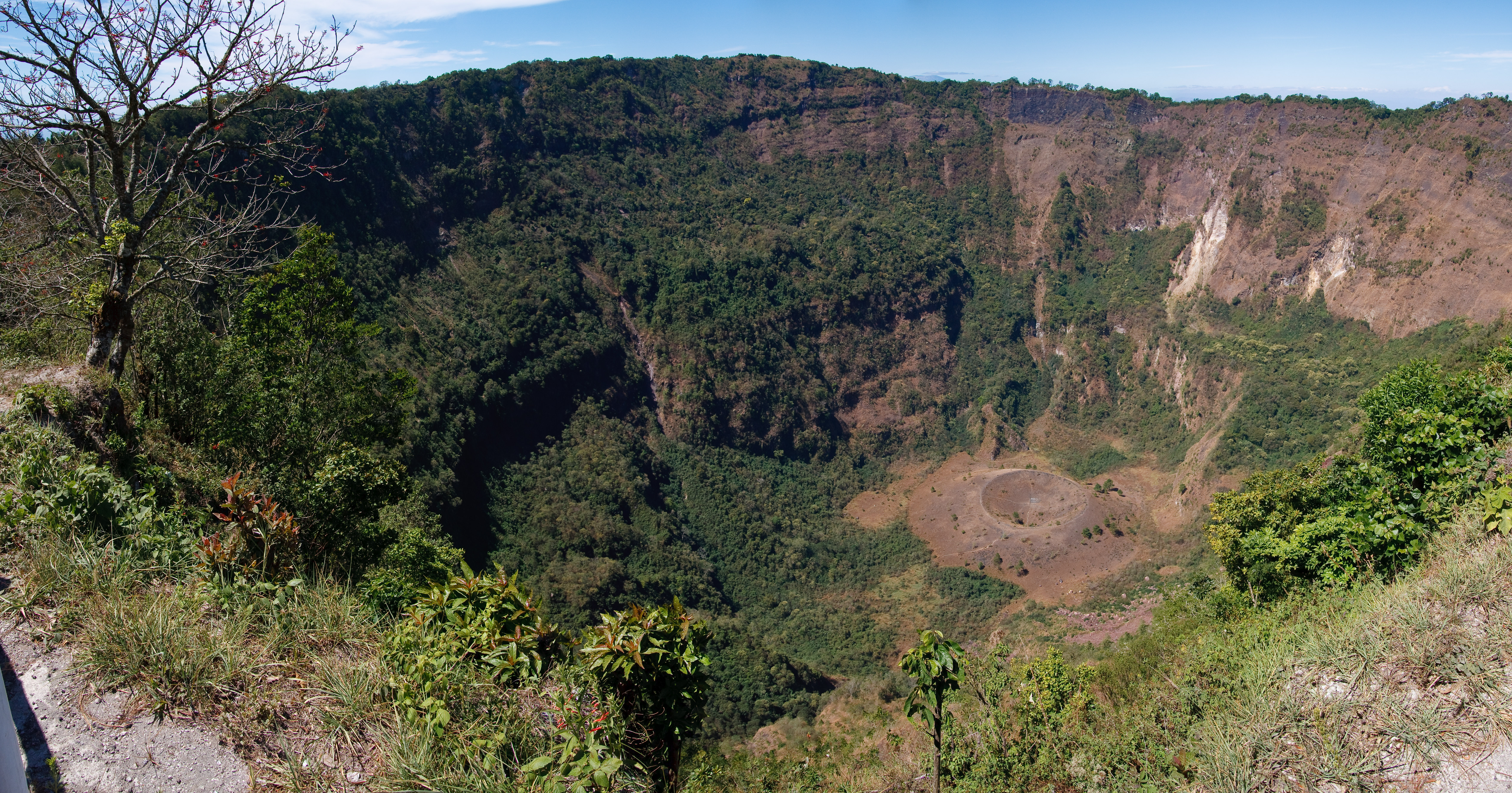 A panoramic view of the Boquerón crater